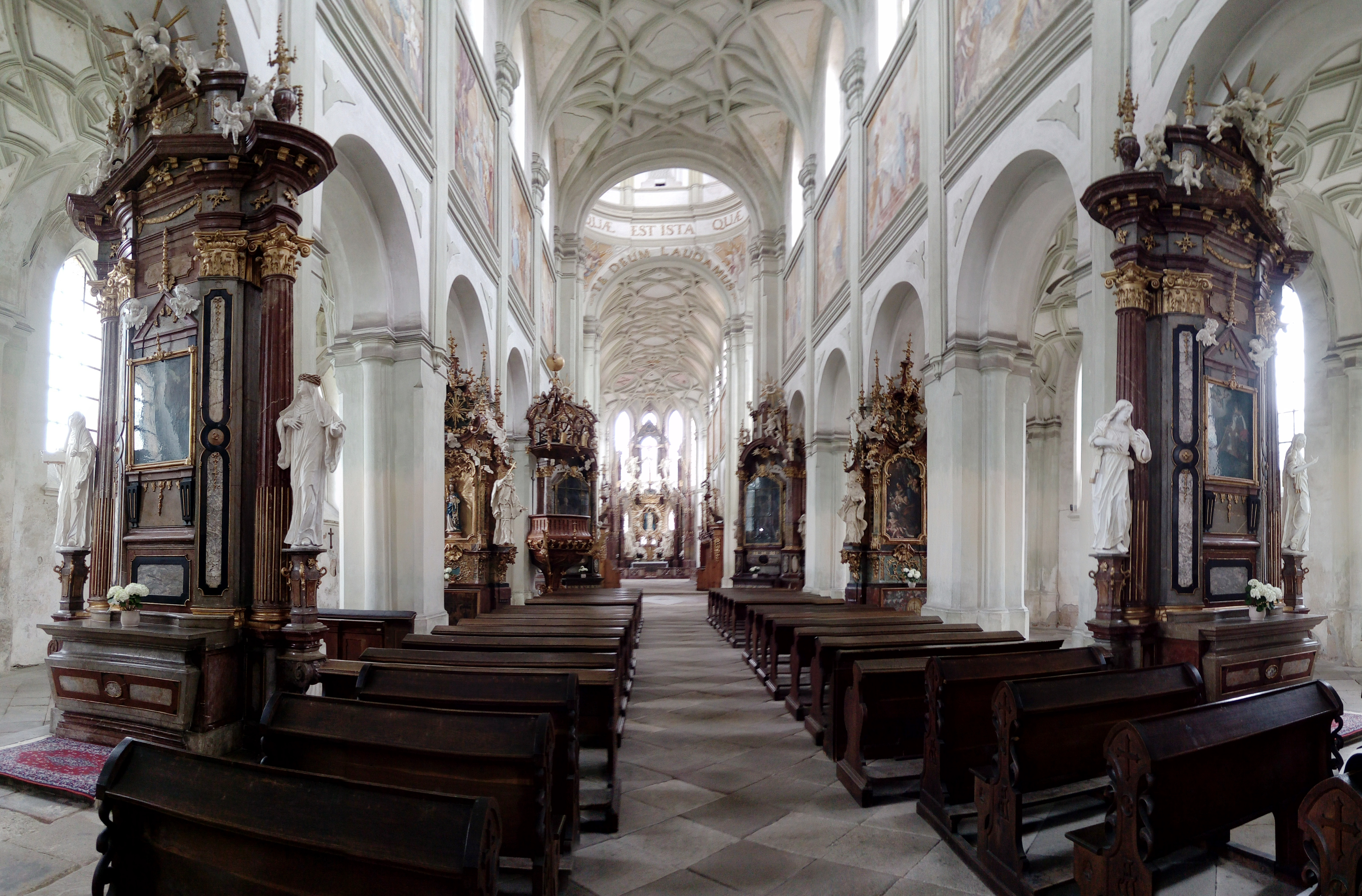 Church of the Assumption of the Virgin Mary in Kladruby monastery, Tachov District, west Bohemia, Czechia